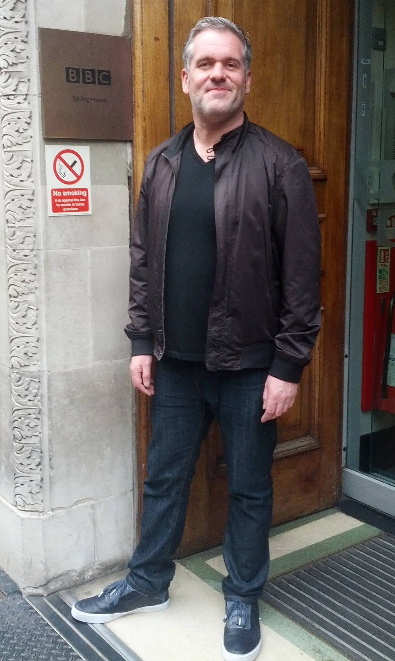 Chris Moyles, standing outside Radio 1's Headquarters - Yalding House, after his final breakfast show on 14th September 2012